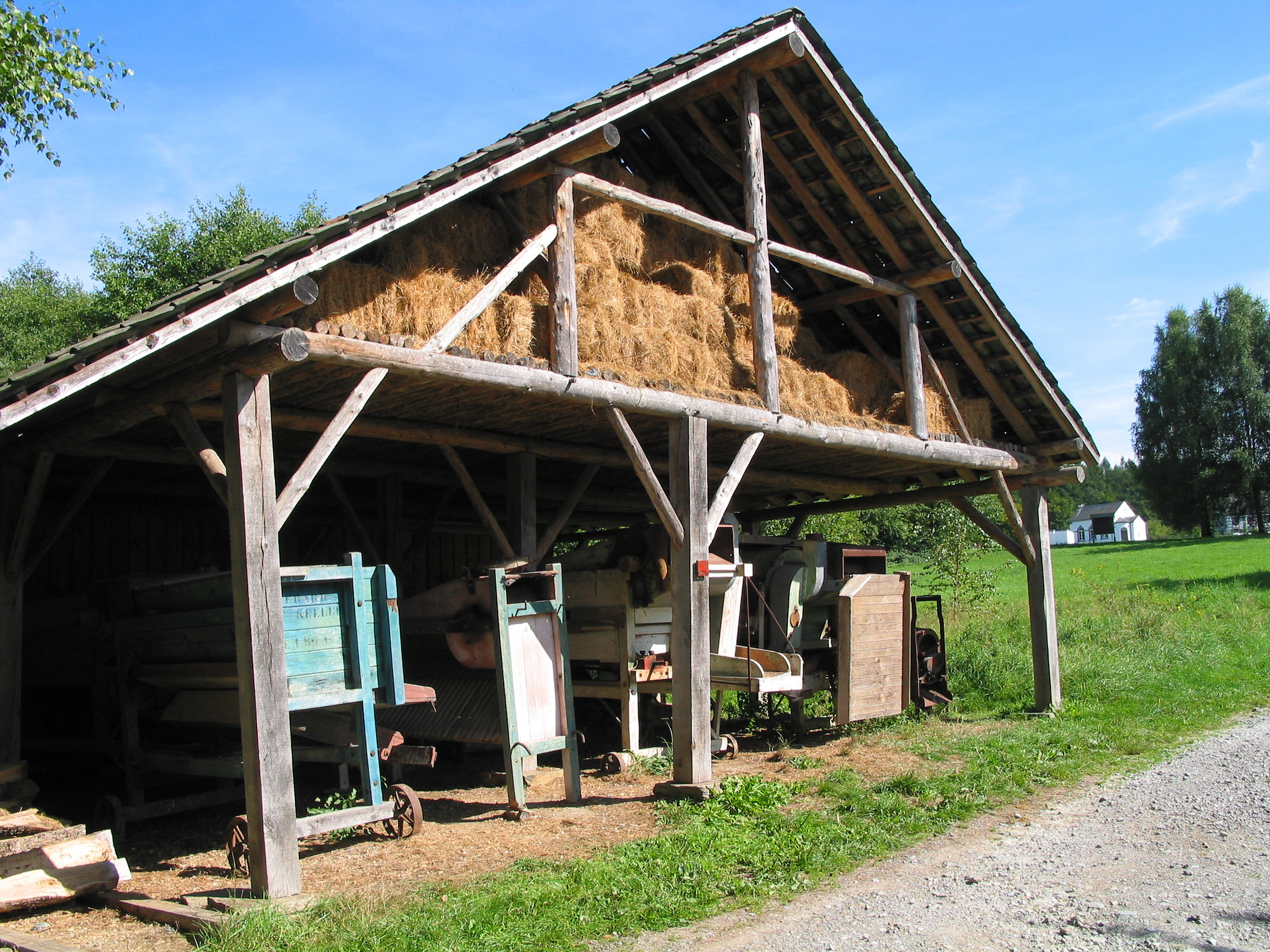 Shelter of the north-eastern area of the Ardennes (Stoumont - XXth century) reconstituted on the location of the St. Michael's Furnace property – Museum of Country Life in Wallonia in Saint-Hubert (Belgium).